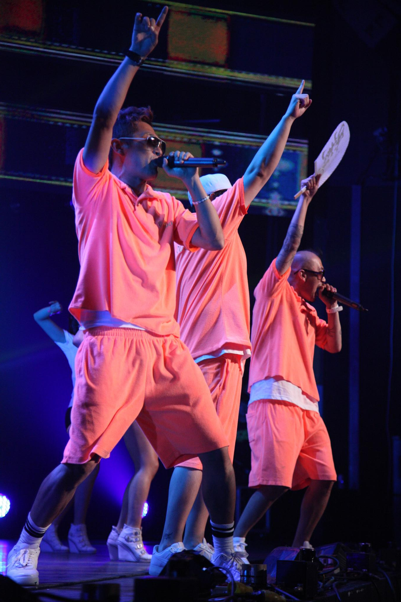 DJ DOC @ Cyworld Dream Music Festival 싸이월드 드림 뮤직 페스티벌_36